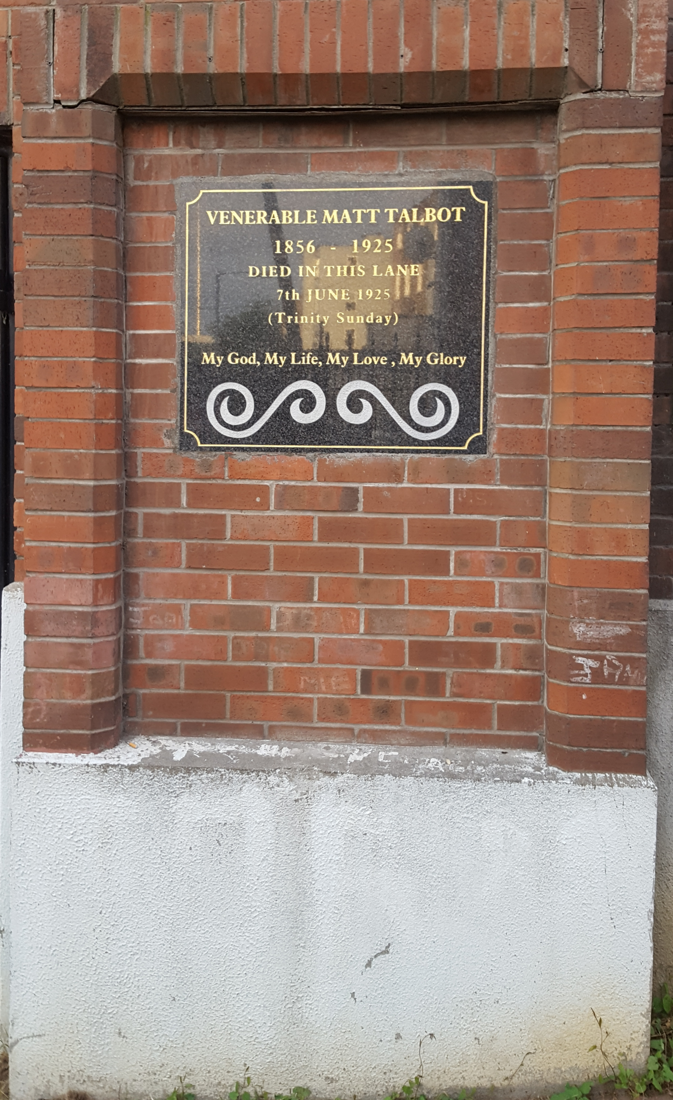 This plaque is attached to the wall of an apartment block on Granby Lane, a narrow thoroughfare from Granby Row to Dominick Street. It marks the spot that Matt Talbot dropped dead from a heart-attack on the 7th June 1925